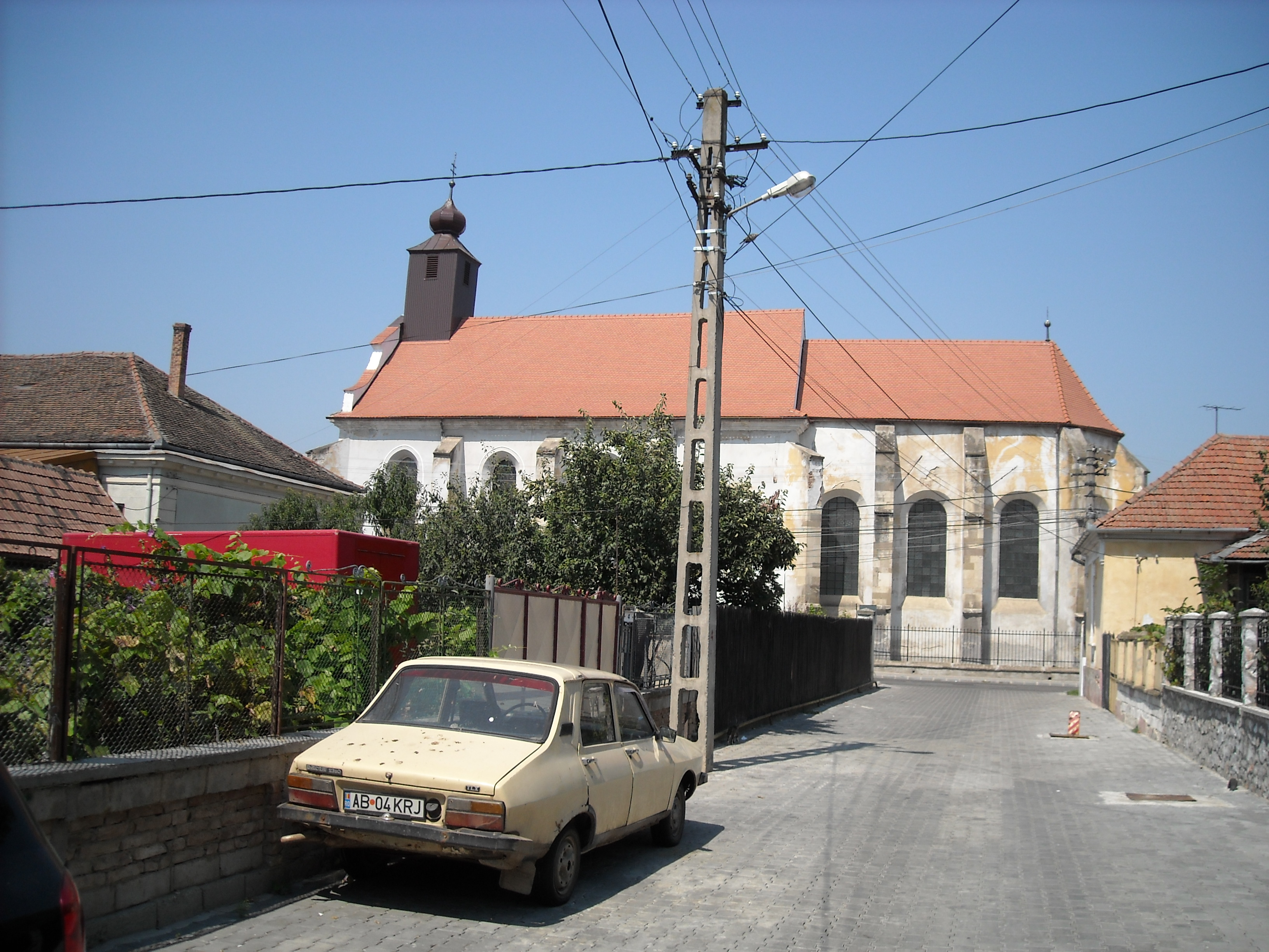 Franciscan church, Sebeş (Mühlbach, Szászsebes)